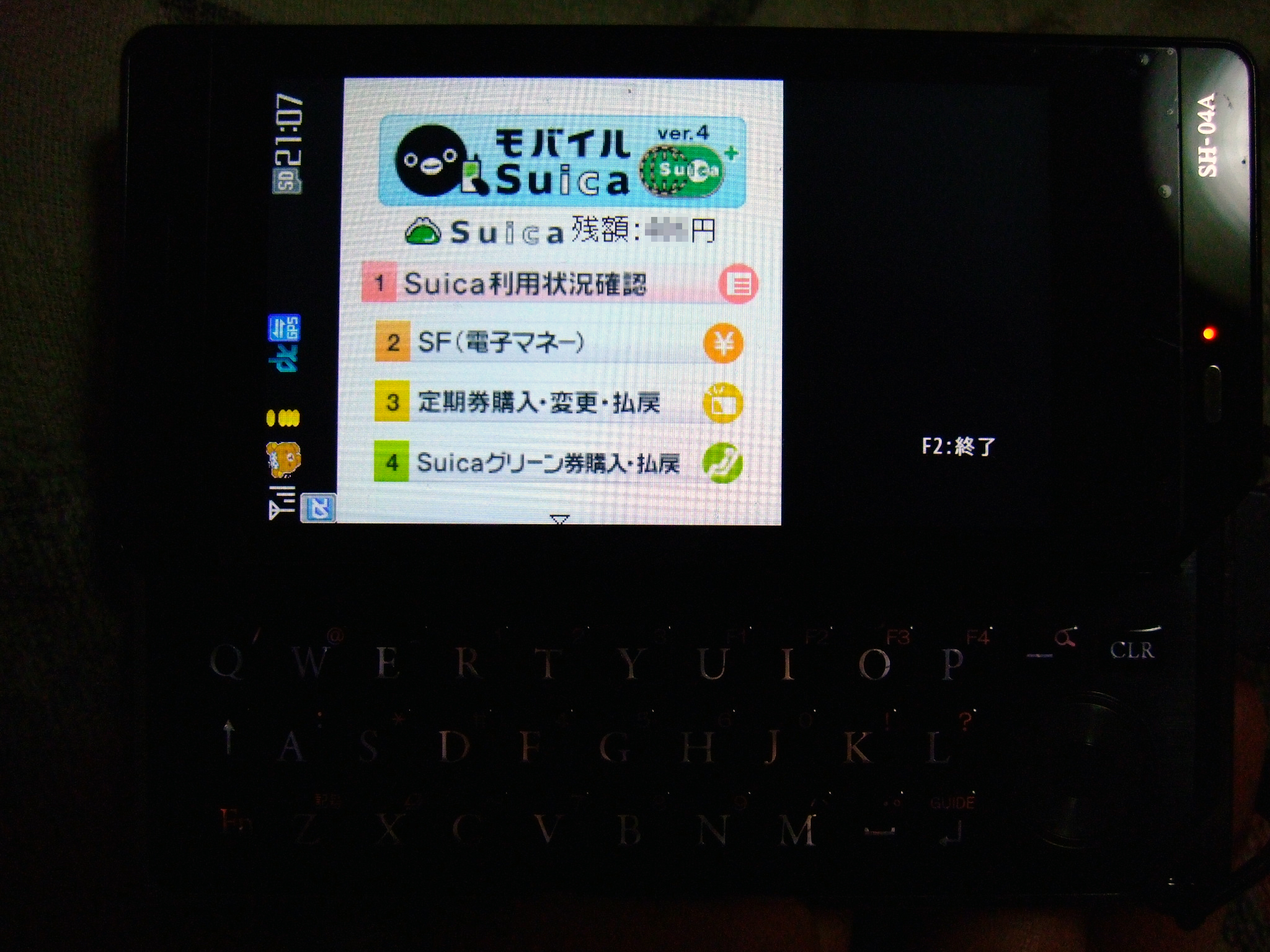 JR East japan Rail Company "Mobile Suica".